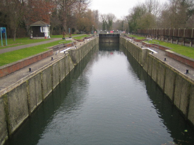 River Thames: Romney Lock. The gridline between SU9677 and SU9777 runs diagonally across the lock, so this is a view of the downstream lock gates in SU9777 taken from the upstream lock gates in SU9677. Compare with 118987 for the view looking the other way. A heron can be seen waiting patiently between the second and third mooring bollards on the left side of the lock.